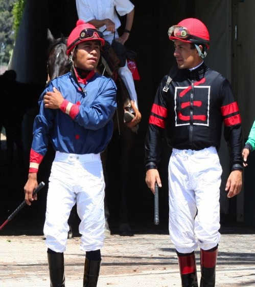 Martin Garcia and Victor Espinozaat Hollywood Park race track in 2008